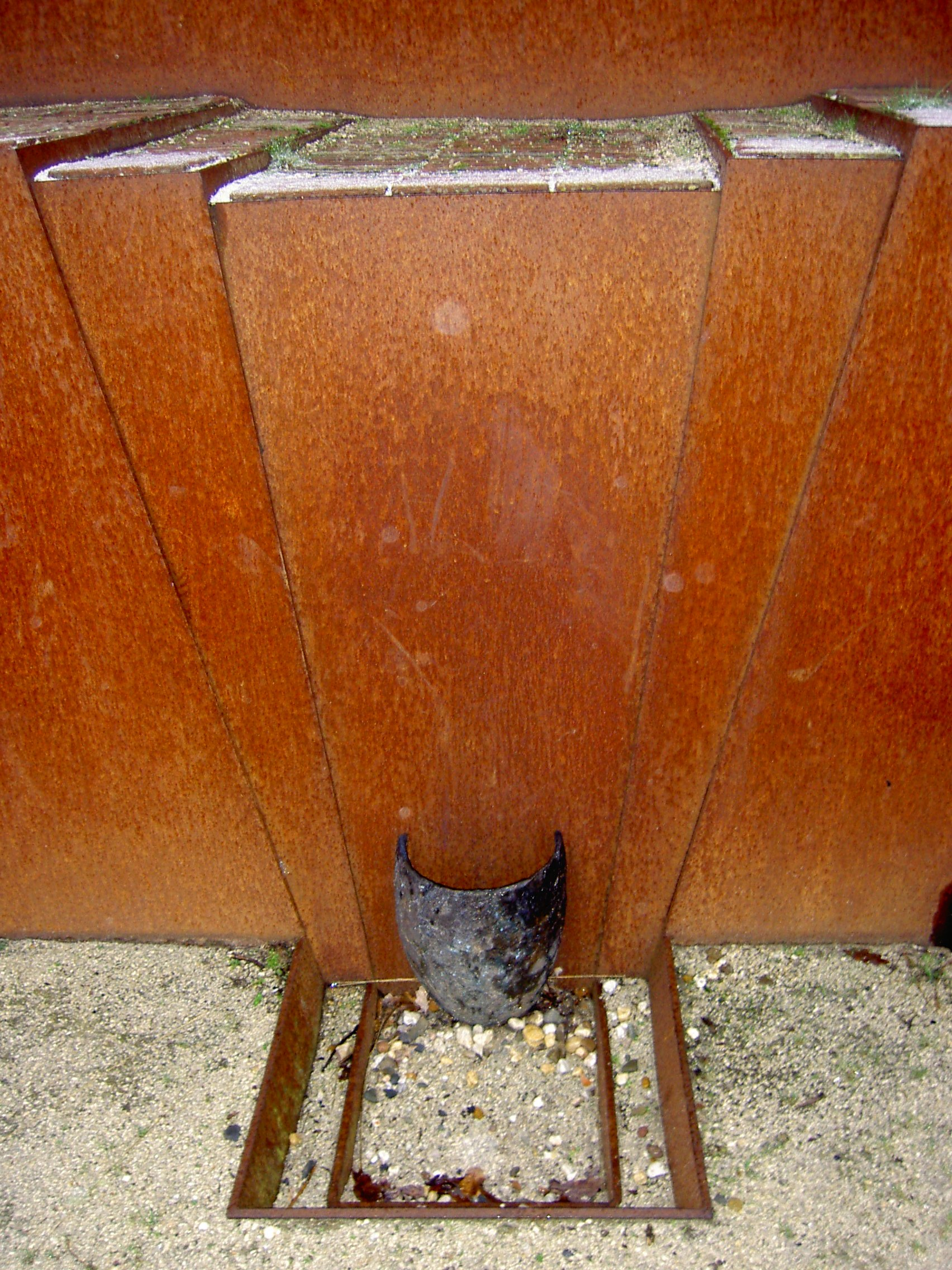 Vorstengraf